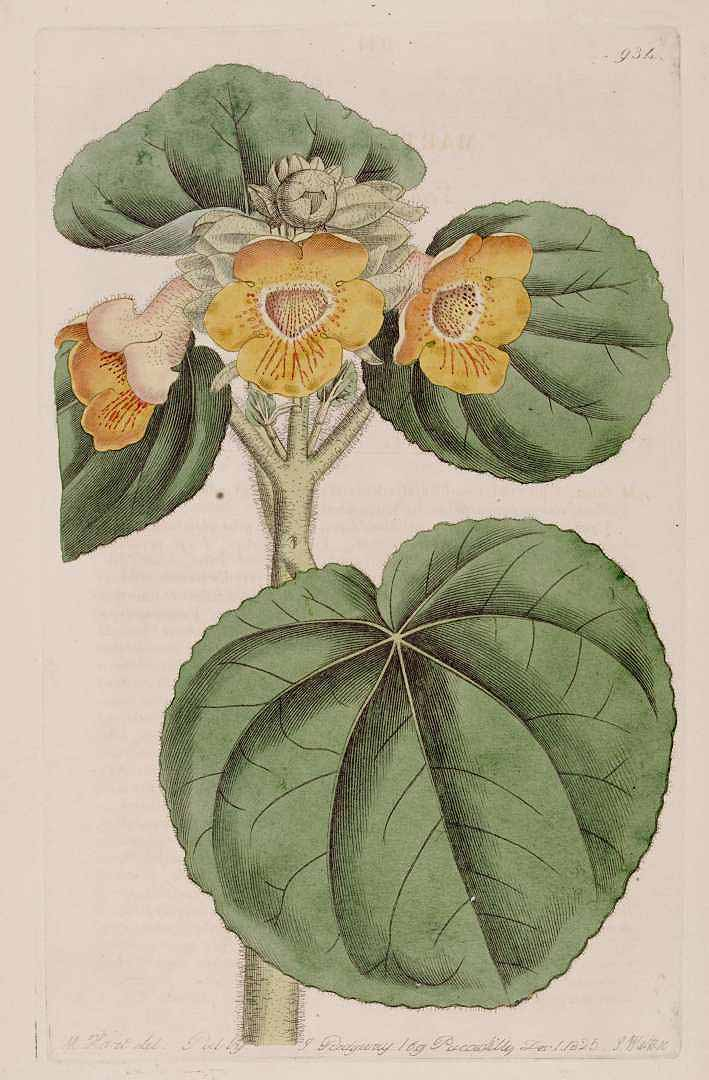 Ibicella lutea (Lindl.) Van Eselt. [as Martynia lutea Lindl.] Botanical Register, vol. 11: t. 934 (1825) [M. Hart]